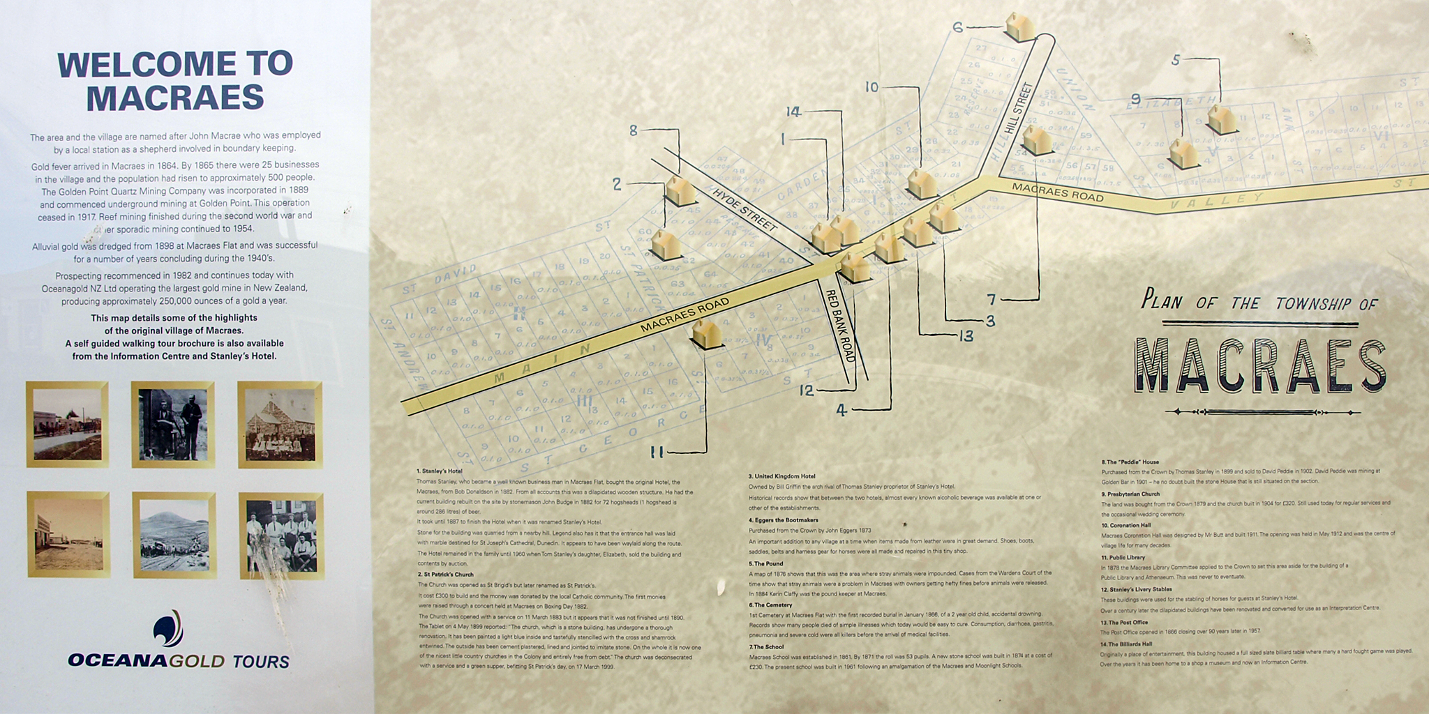 Township Information Board from Macraes Flat, Otago, New Zealand.